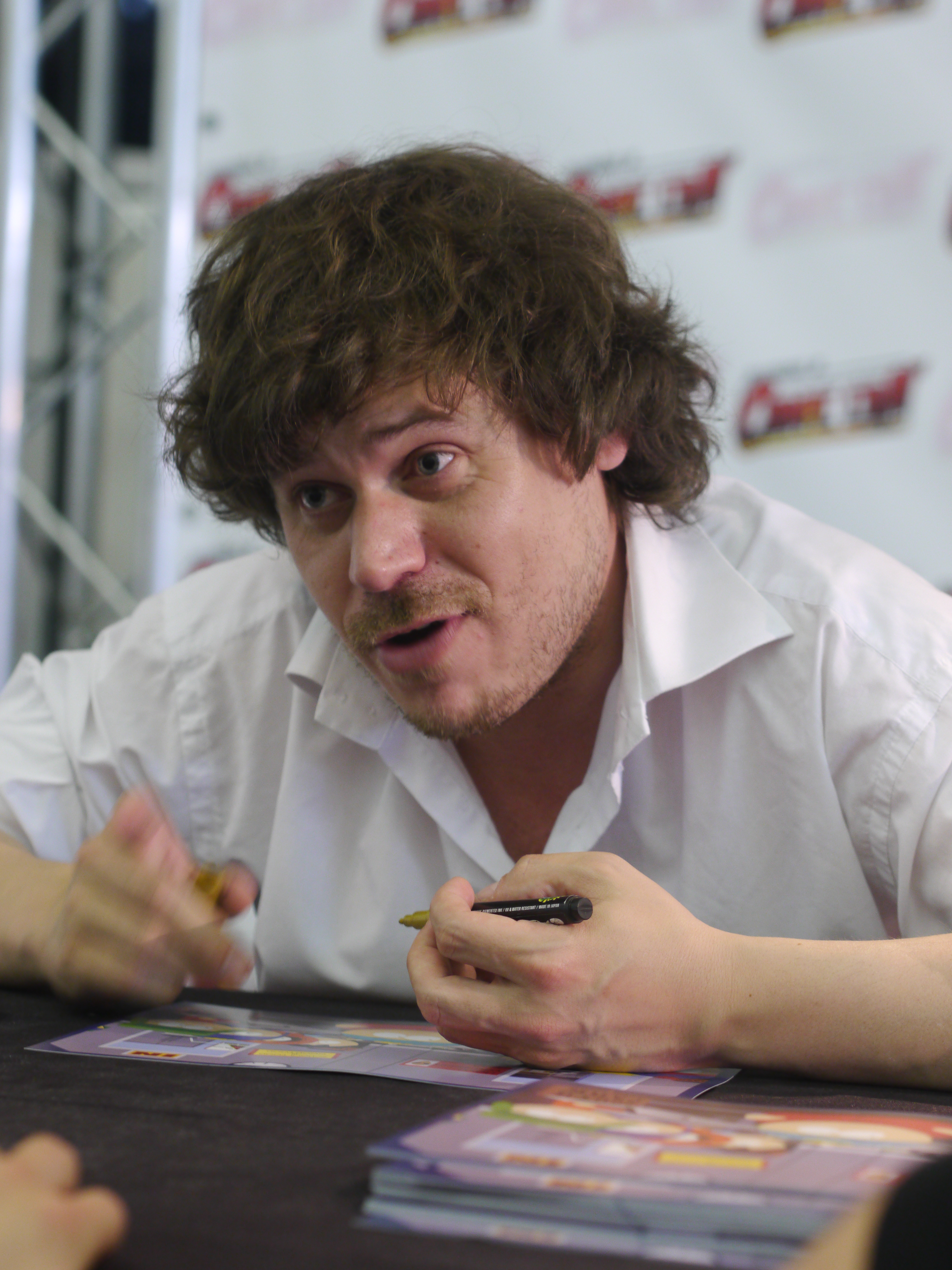 Japan Expo Festival, 14th impact